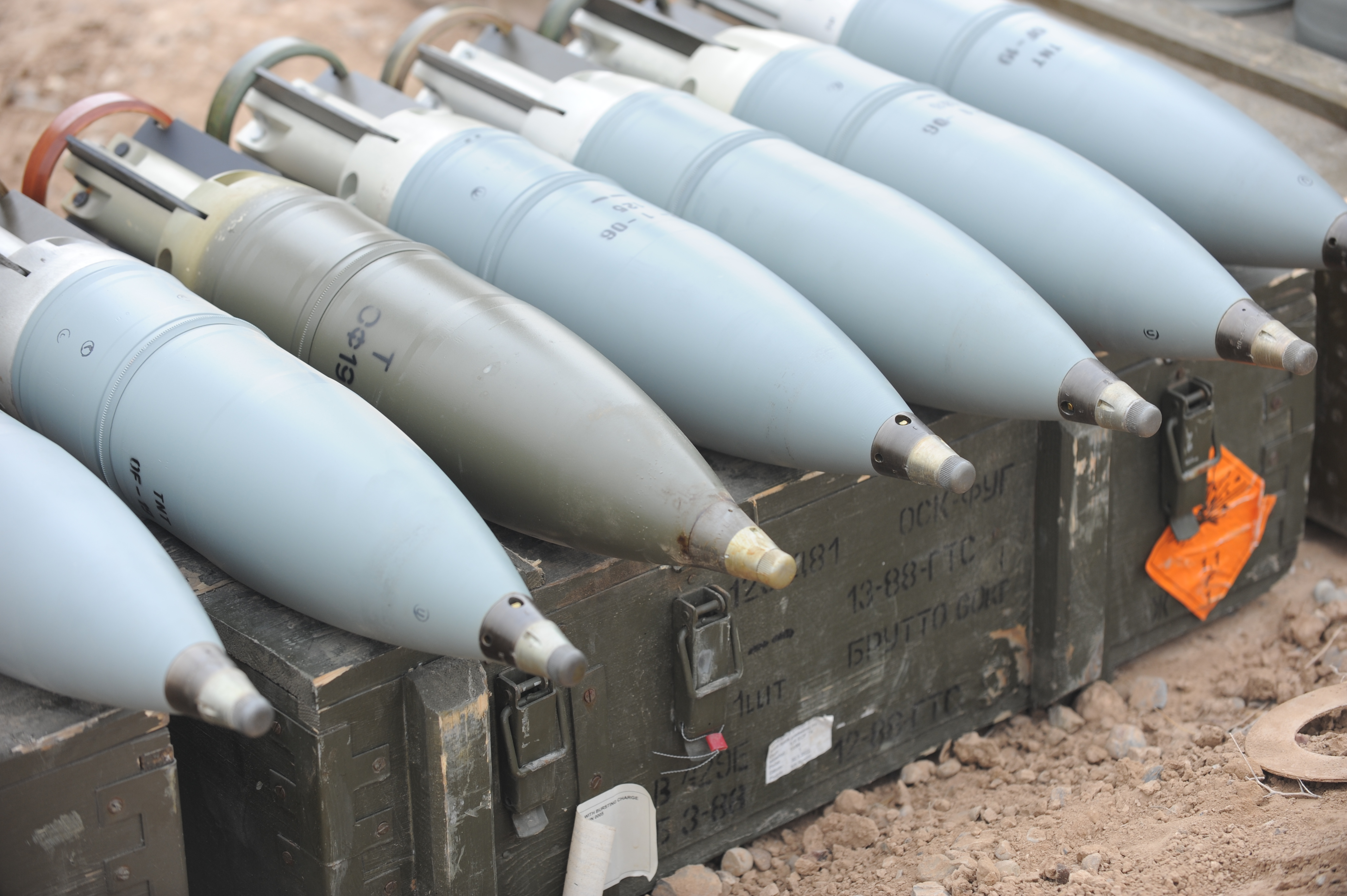 Ammunition waits to be transported to several Iraqi T-72 tanks at a live fire exercise Oct. 29, 2008, at the Besmaya Gunnery Range, Iraq.